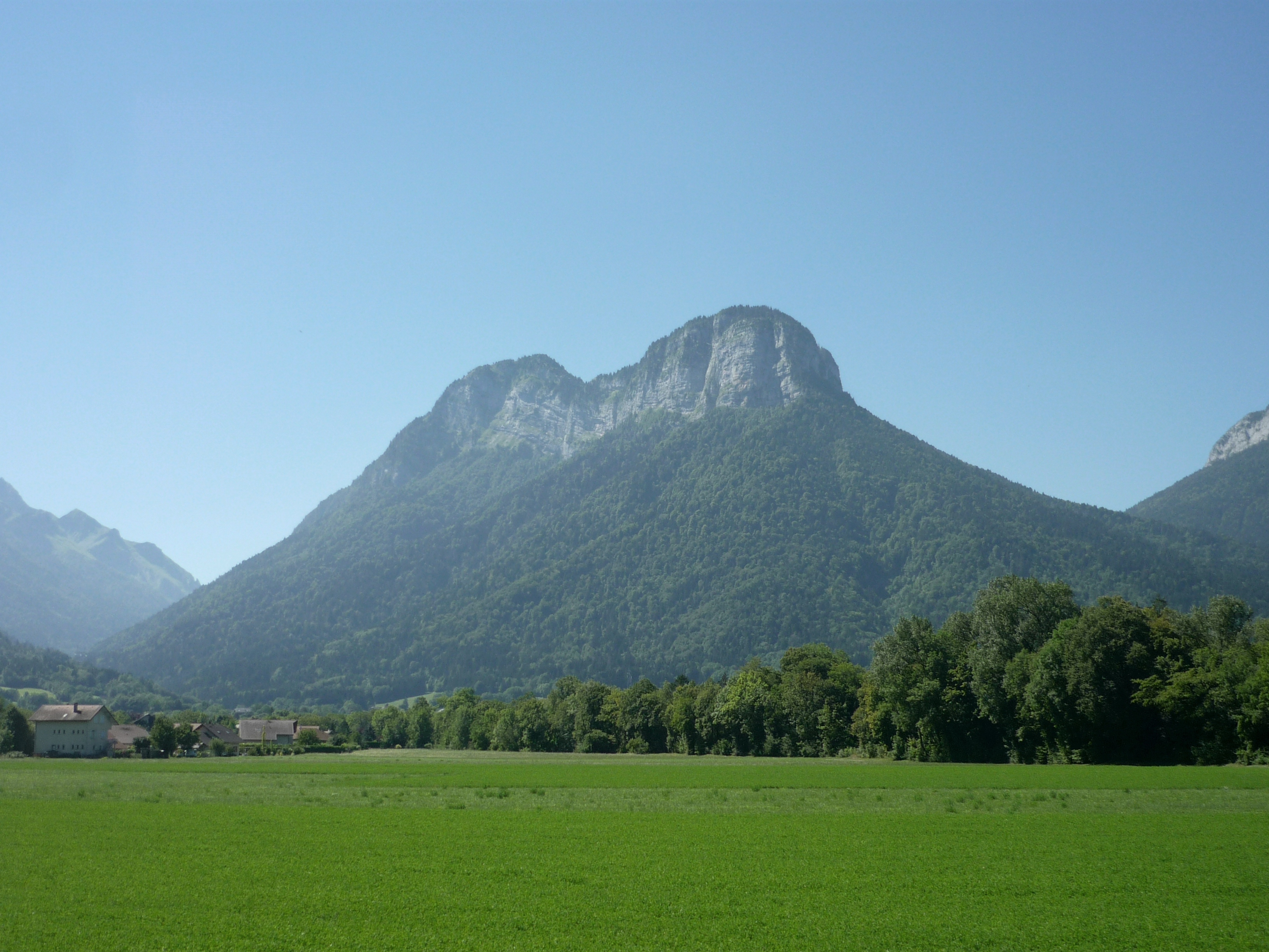 Doussard, Haute-Savoie, France